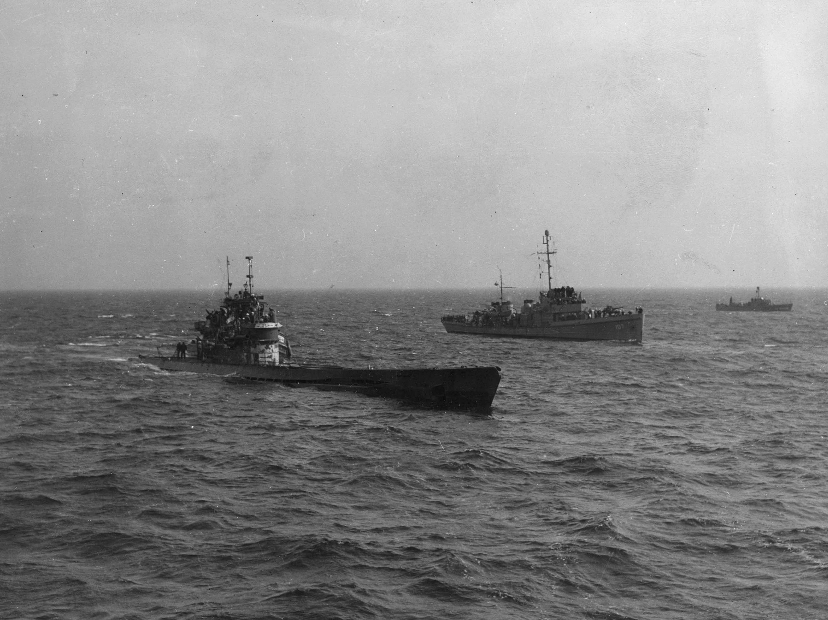 The German Type IXC/40 submarine U-1228 surrenders at Portsmouth, New Hampshire (USA) on 17 May 1945. In August 1945, U-1228 was awarded to the United States and after being tested, she was sunk by the U.S. Navy submarine USS Sirago (SS-485) on 5 February 1946 in position 42°32′N 69°37′W. The U.S. Coast Guard cutter USCGC Dione (WPC-107) is escorting U-1228.